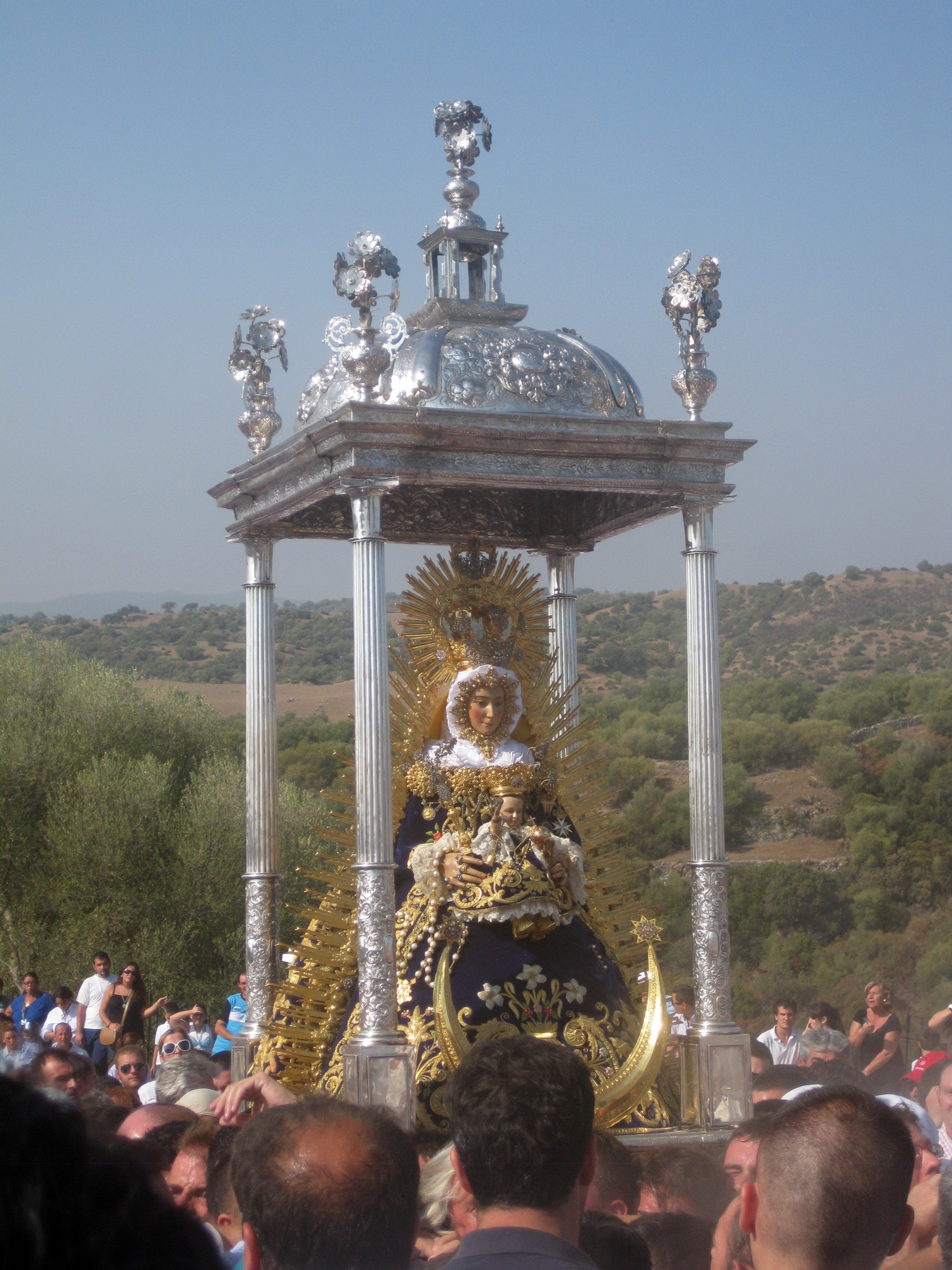 Romería de la Virgen de Setefilla.